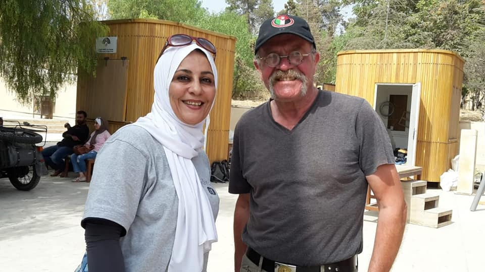 kheria AL-kukhun with prof.Thomas Weber